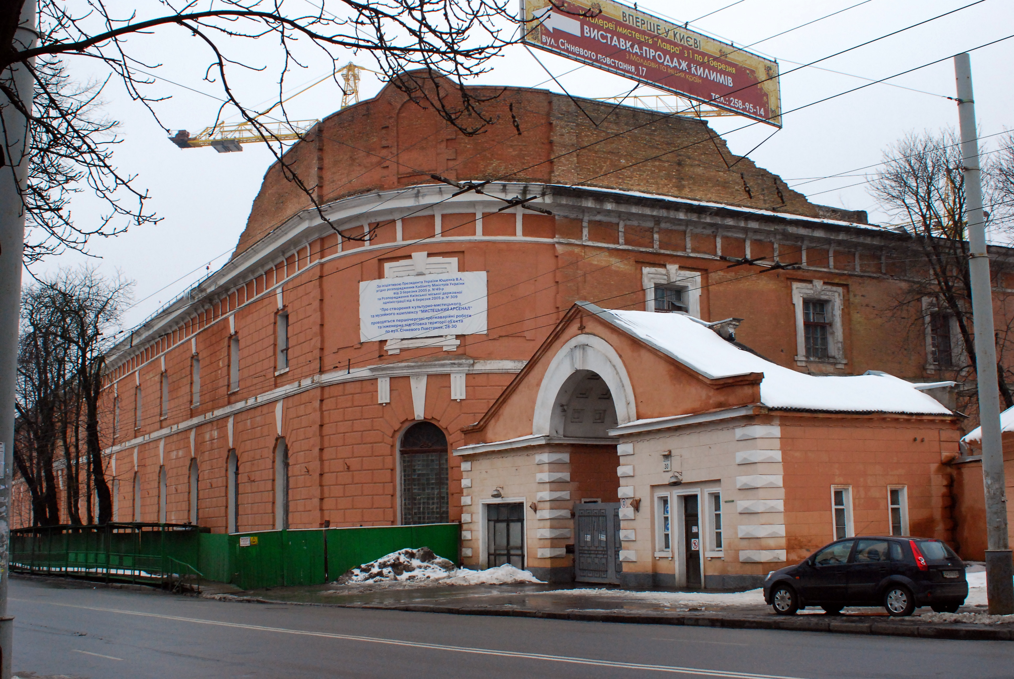 Various views of the Kiev Arsenal factory complex in Kiev, Ukraine.